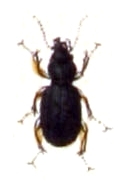 Patrobus atrorufus, from Calwer's Käferbuch, Table 6, Picture 19. Taxonomy was updated to 2008, using mostly the sites Fauna Europaea and BioLib. Please contact Sarefo if the determination is wrong!